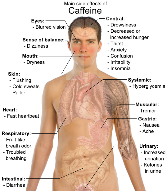 Main side effects of Caffeine. References: Caffeine (Systemic). MedlinePlus (2000-05-25). Archived from the original on 2007-02-23. Retrieved on 2006-08-12. Model: Mikael Häggström. To discuss image, please see Template_talk:Häggström diagrams